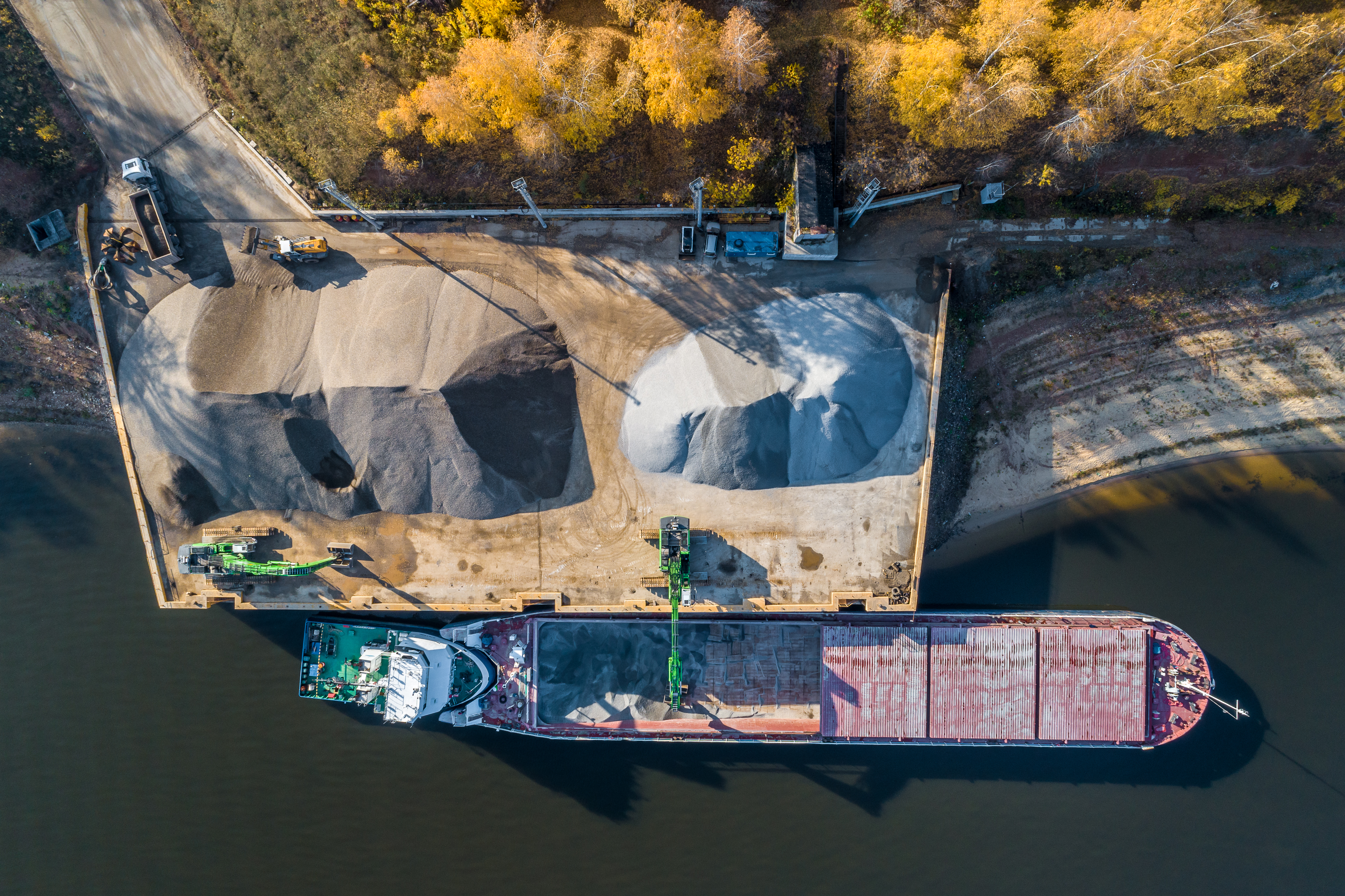 Transshipment of cargo at the port of Logoprom Kstovo